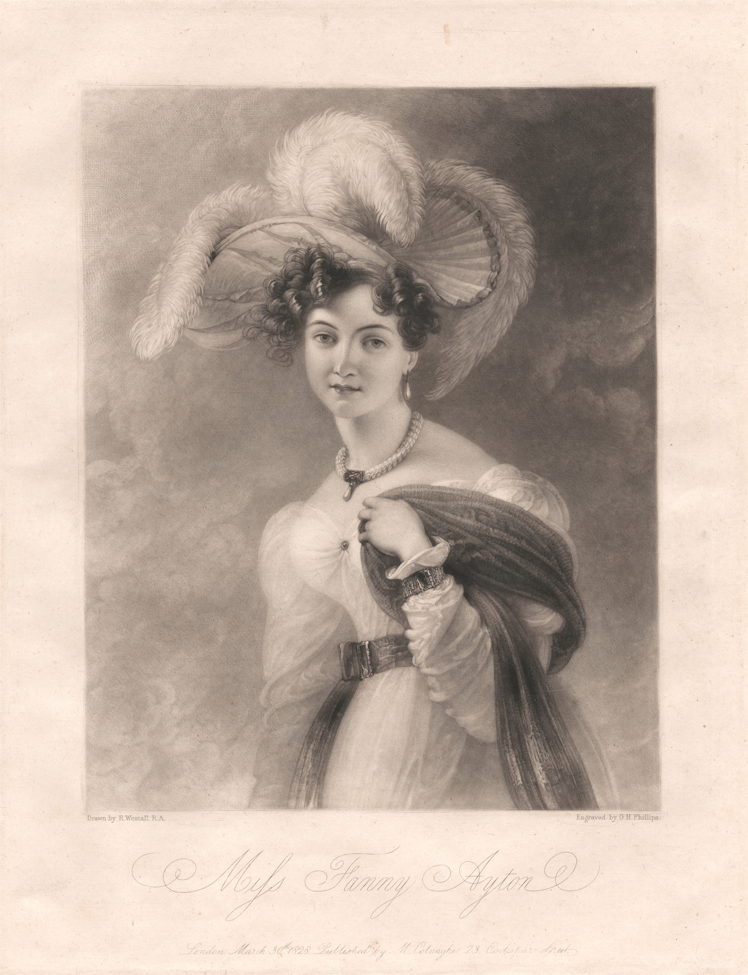 Portrait of soprano Fanny Ayton. Mezzotint, 13 x 10in. (33 x 25.4cm), recto. Yale Center for British Art, Paul Mellon Fund.